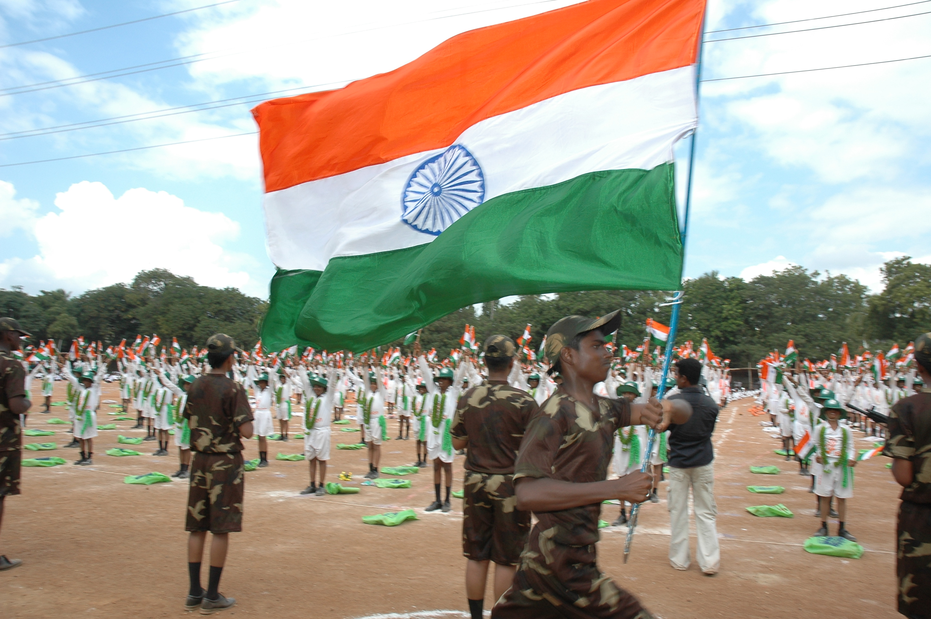 This picture shows the LVS sports display in progress